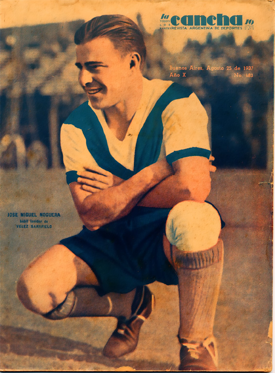 José Miguel Noguera on the cover of La Cancha magazine when he played for Velez Sarsfield in Argentina. The magazine, an Argentine sports magazine, is no longer in print.